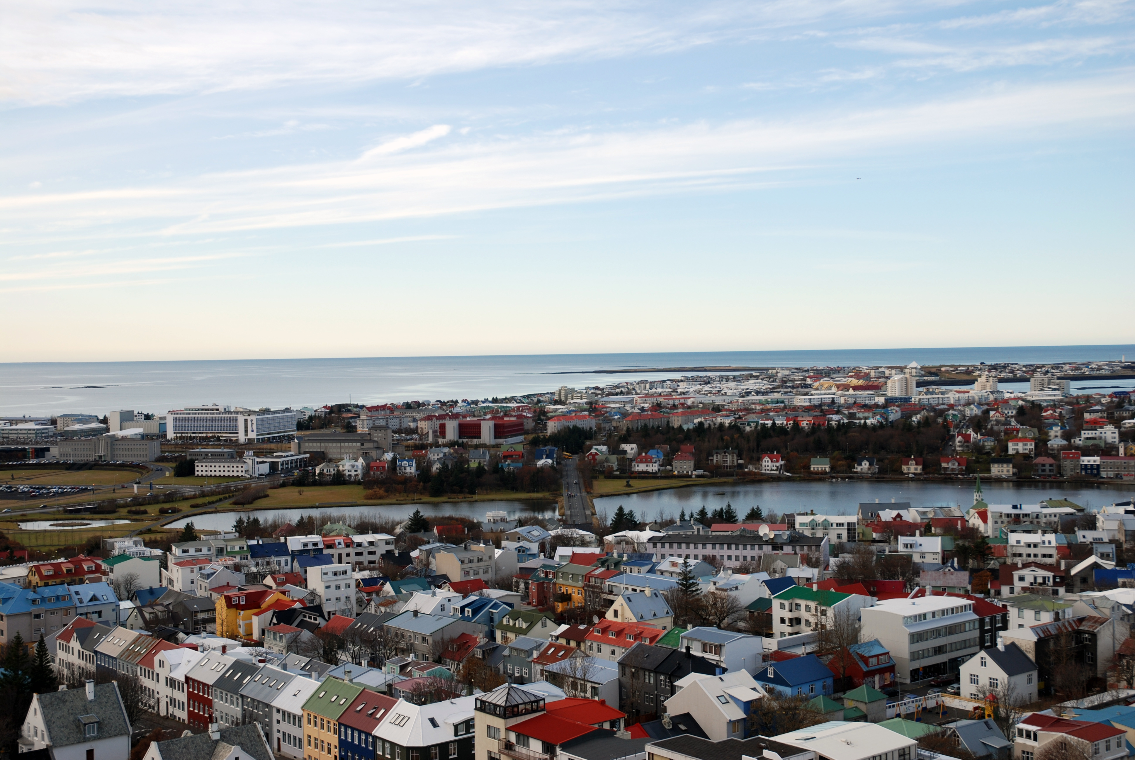 taken from the Cathedral tower,Reykjavik,Oct 2009